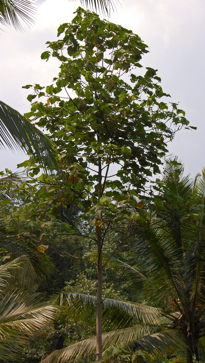 Hibiscus macrophyllus, habit. From Sukabumi, West Java, Indonesia.